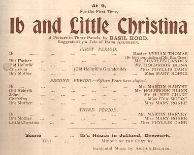 Part of the 1900 theatre programme for Ib and Little Christina